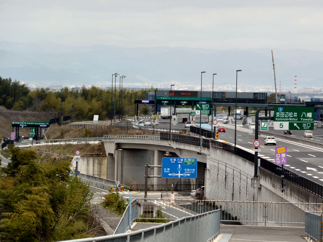 Off ramp of Kyotanabe-Matsui interchange